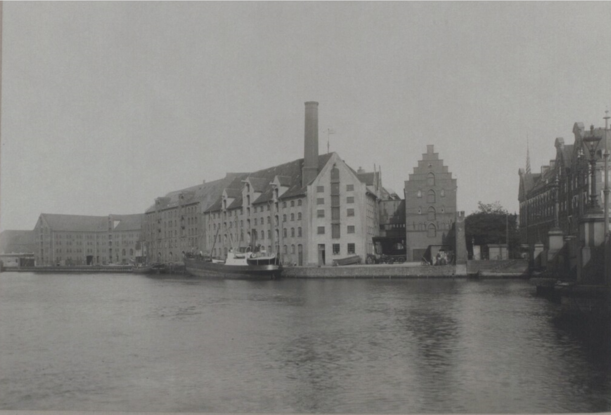 Sukkerfabrikken Phønix at the corner of Slotsholmsgade and Christians Brygge in Copenhagen, Denmark